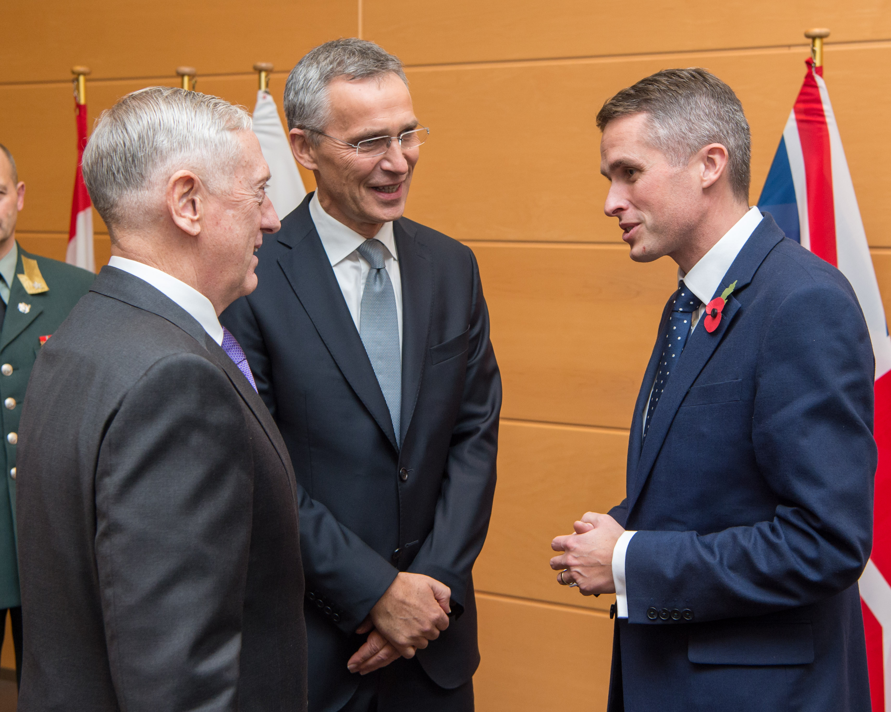 Secretary of Defense Jim Mattis, NATO Secretary General Jens Stoltenberg and the United Kingdom’s Secretary of State for Defense Gavin Williamson speak before a meeting at the NATO Headquarters in Brussels, Belgium, Nov. 8, 2017. (DOD photo by U.S. Air Force Staff Sgt. Jette Carr)